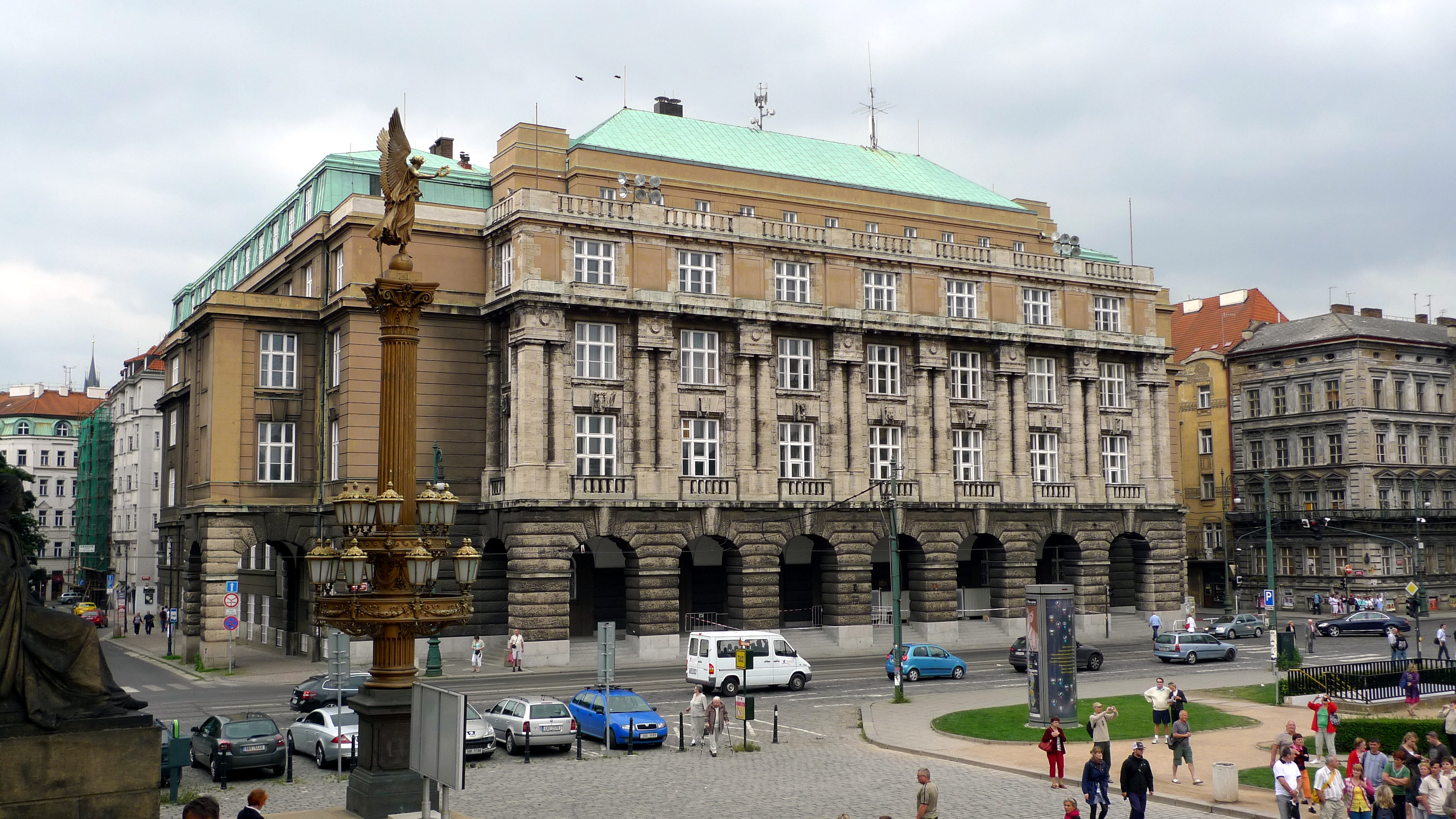 Main building of the Faculty of Arts of Charles University in Prague, Czech Republic